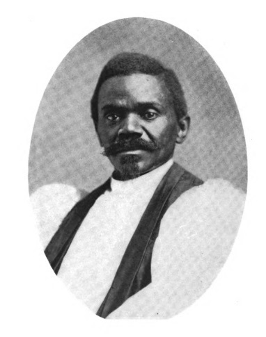 The Rt. Rev. James Theodore Holley, first Episcopal Bishop to the church in Haiti. Has seat in the House of Bishops by courtesy, but no vote.